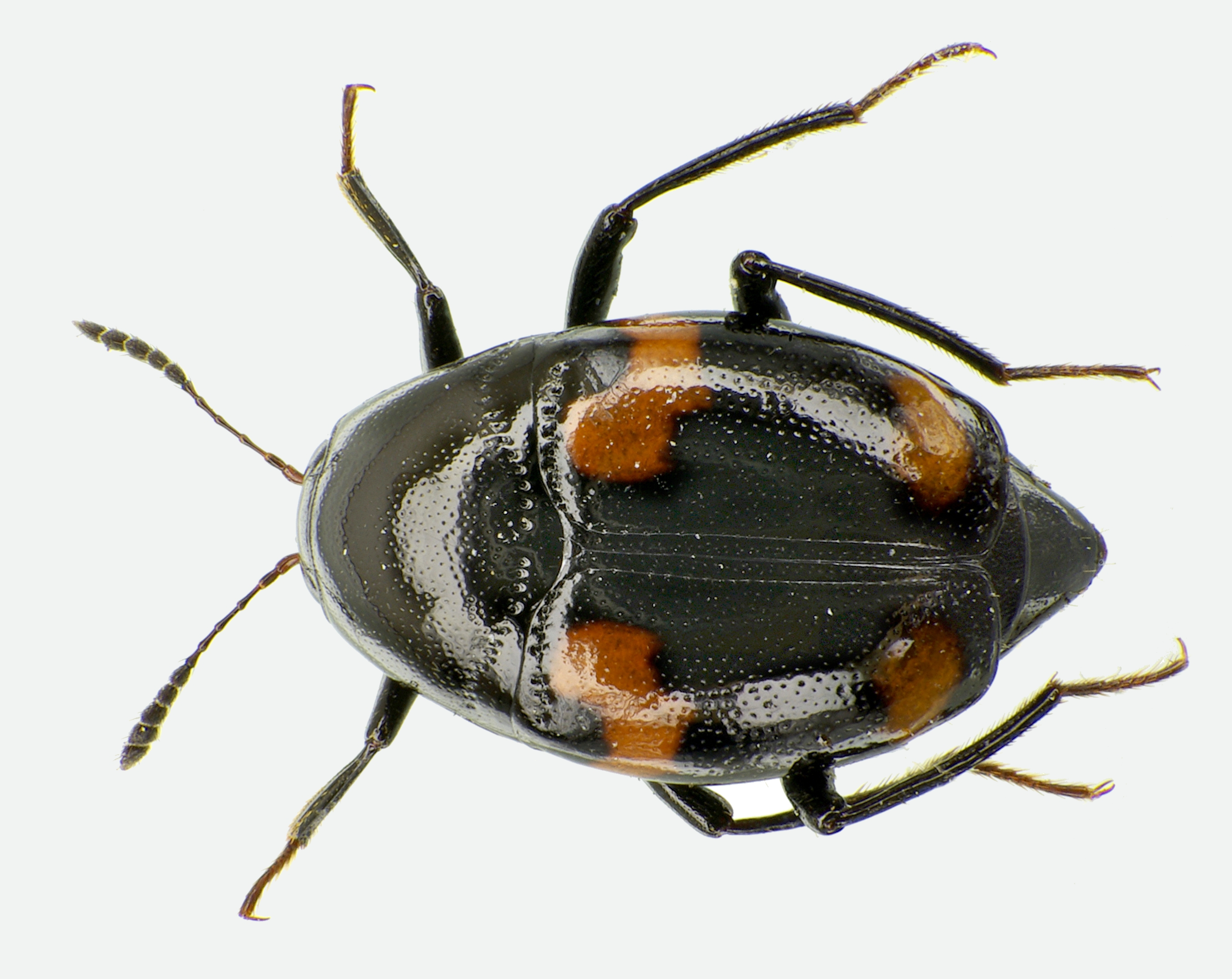 Scaphidium quadrimaculatum from West France, Hostens about 30 km south of Bordeaux, under bark of dead poplar tree at 2013-05-02